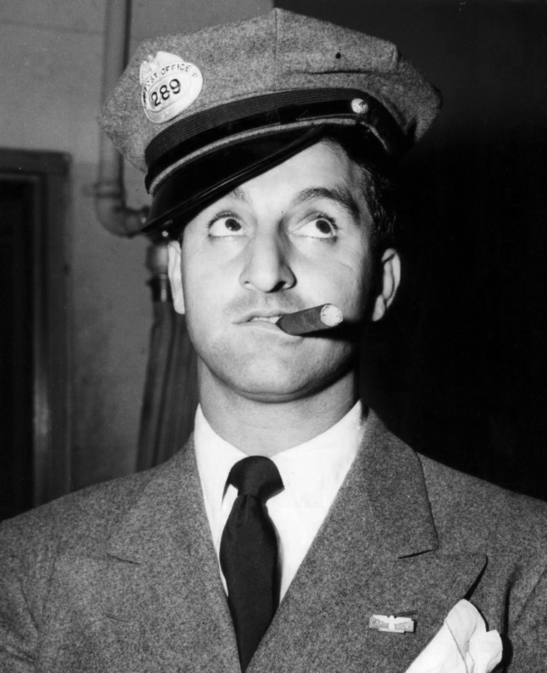 Publicity photo of Danny Thomas as Jerry Dingle from the Baby Snooks radio show.